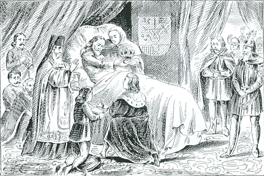 Death of Dušan (1355). drawing.